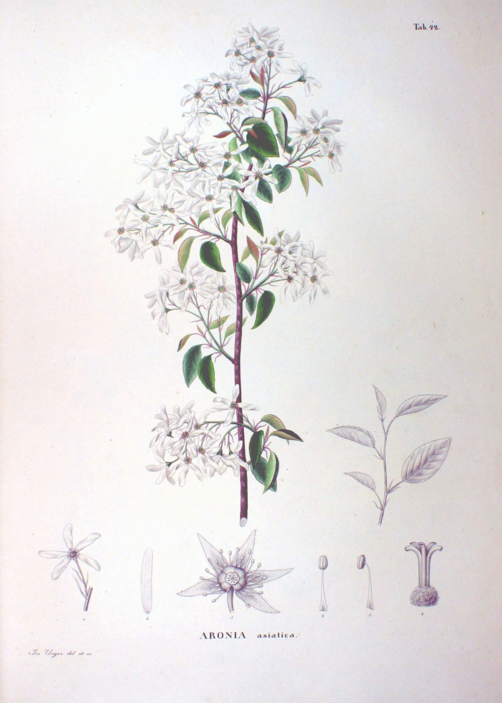 Plate from book